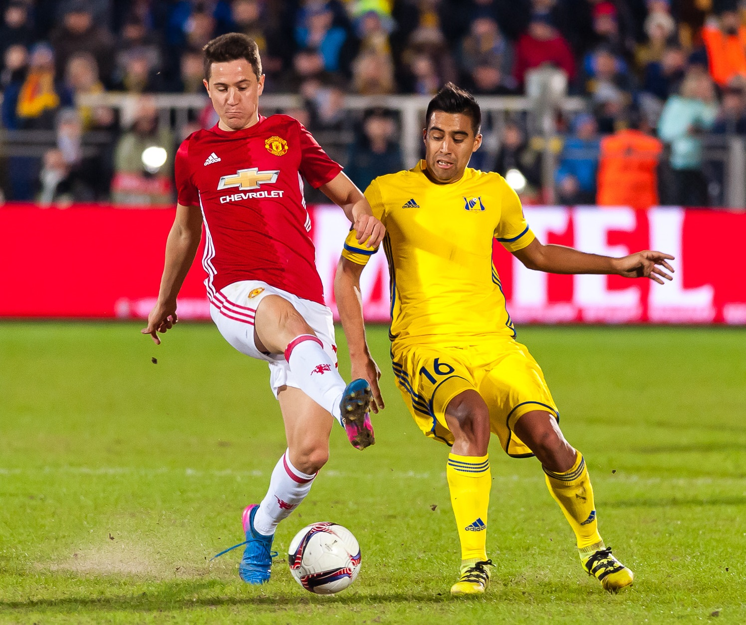 Manchester United footballer Ander Herrera in 2017 UEFA Europa league match in Rostov, Russia.